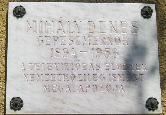 Dénes Mihály commemorative plaque in Gödöllő. Mihály Dénes Alley No1.